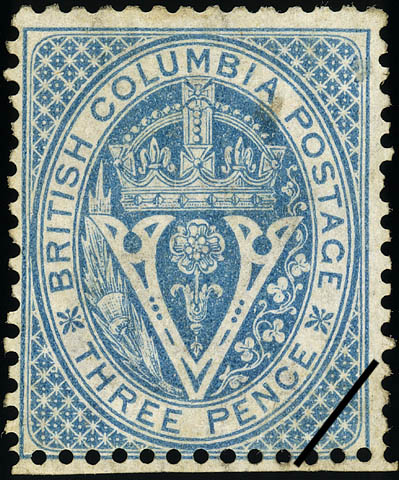 Postal Administration: British Columbia ; Title: Crown and Floral Emblems ; Denomination: 3d ; Date of Issue: 1 November 1865